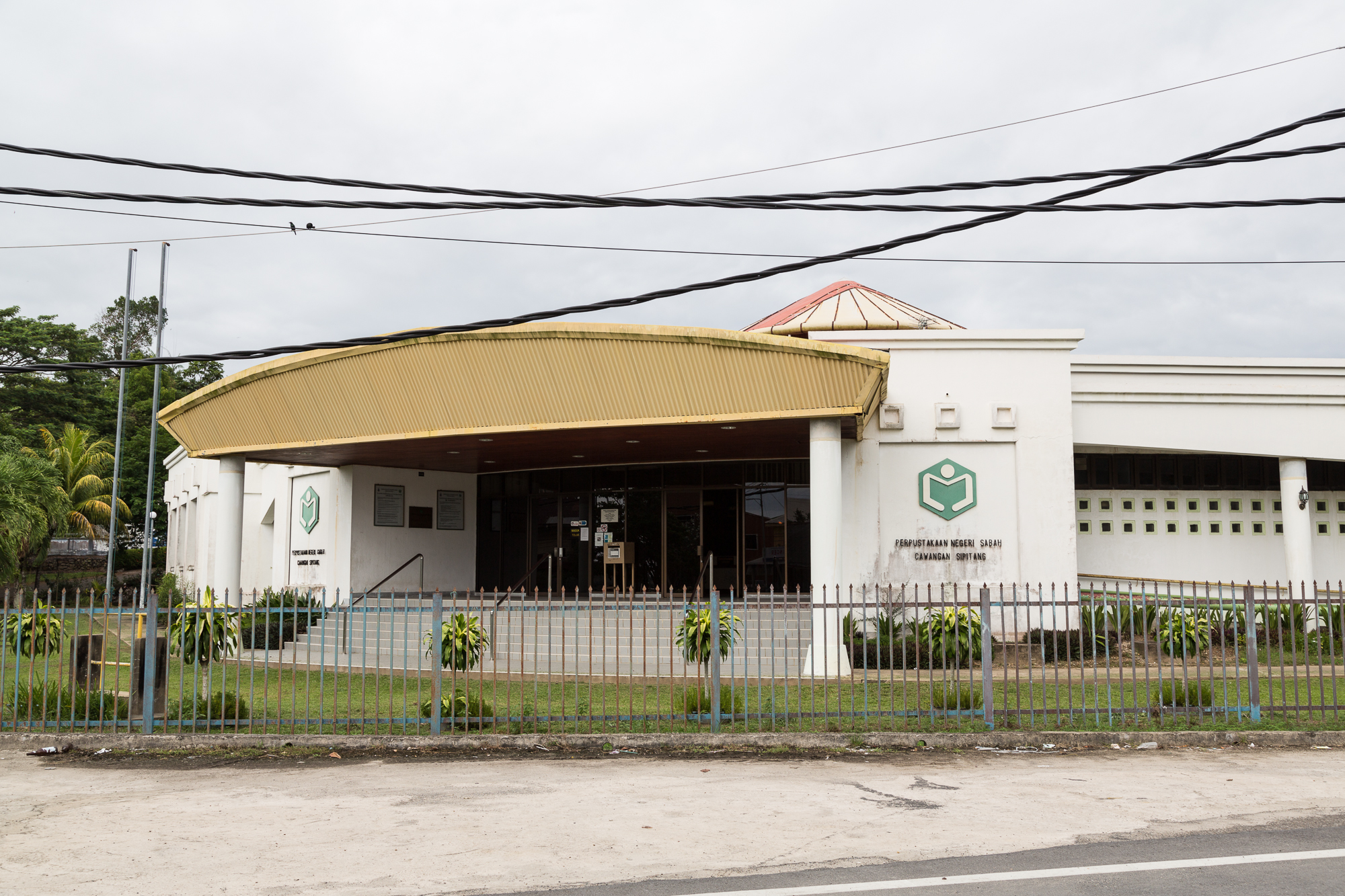 Sipitang, Sabah: Branch Library Sipitang (Perpustakaan Negeri Sabah Cawangan Sipitang)